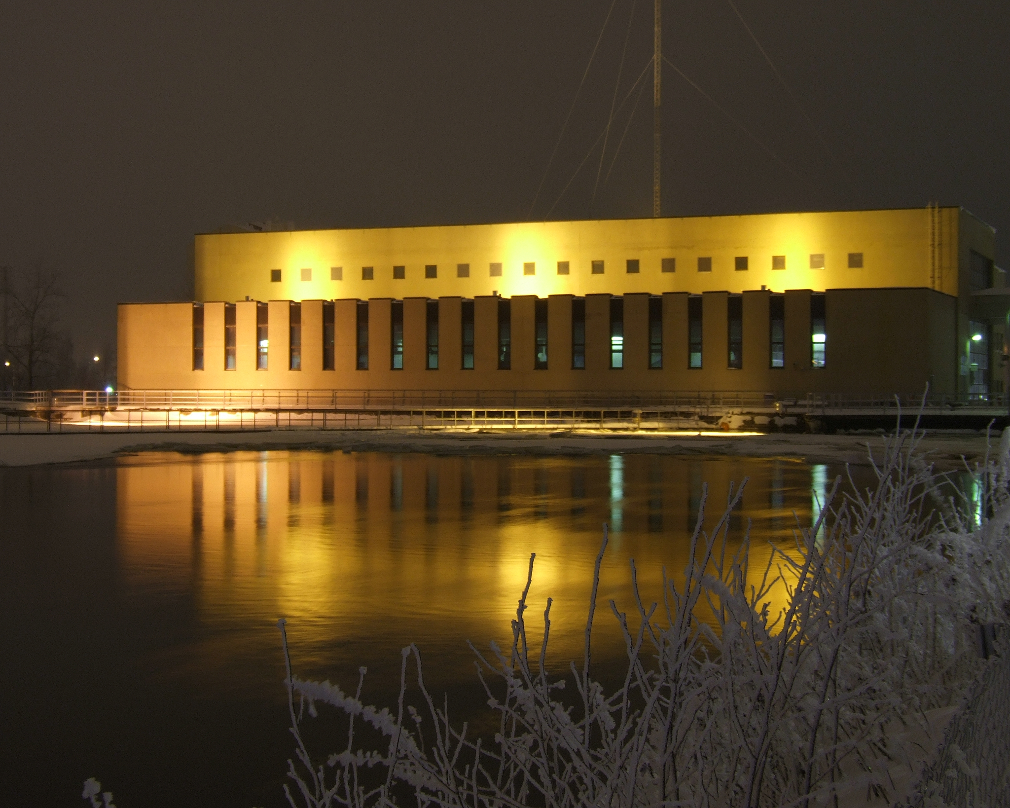 Merikoski hydroelectric power plant in Oulujoki river in Oulu, Finland, was designed by architect Bertel Strömmer and built in 1948. The current plant capacity, after modifications in 1997, is 39 MWe.